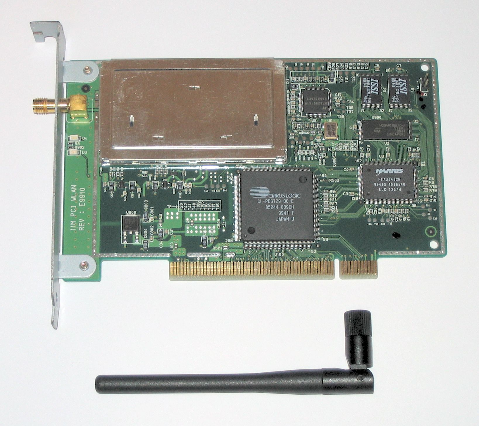 This is a Compaq WL200 802.11b PCI card.